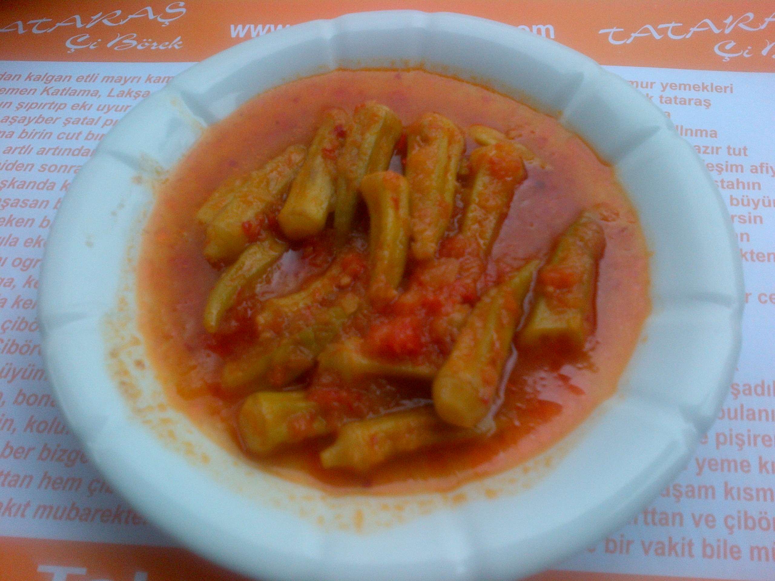 Okra stew in Turkey.